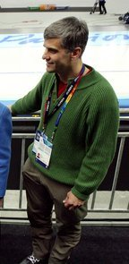 Former Olympian Dr. Eric Heiden meets with the family and parents of US speed skater Chad Hedrick after Hedrick finished first place in his heat taking the first US gold medal in the 2006 Winter Olympics in Turin, Italy.